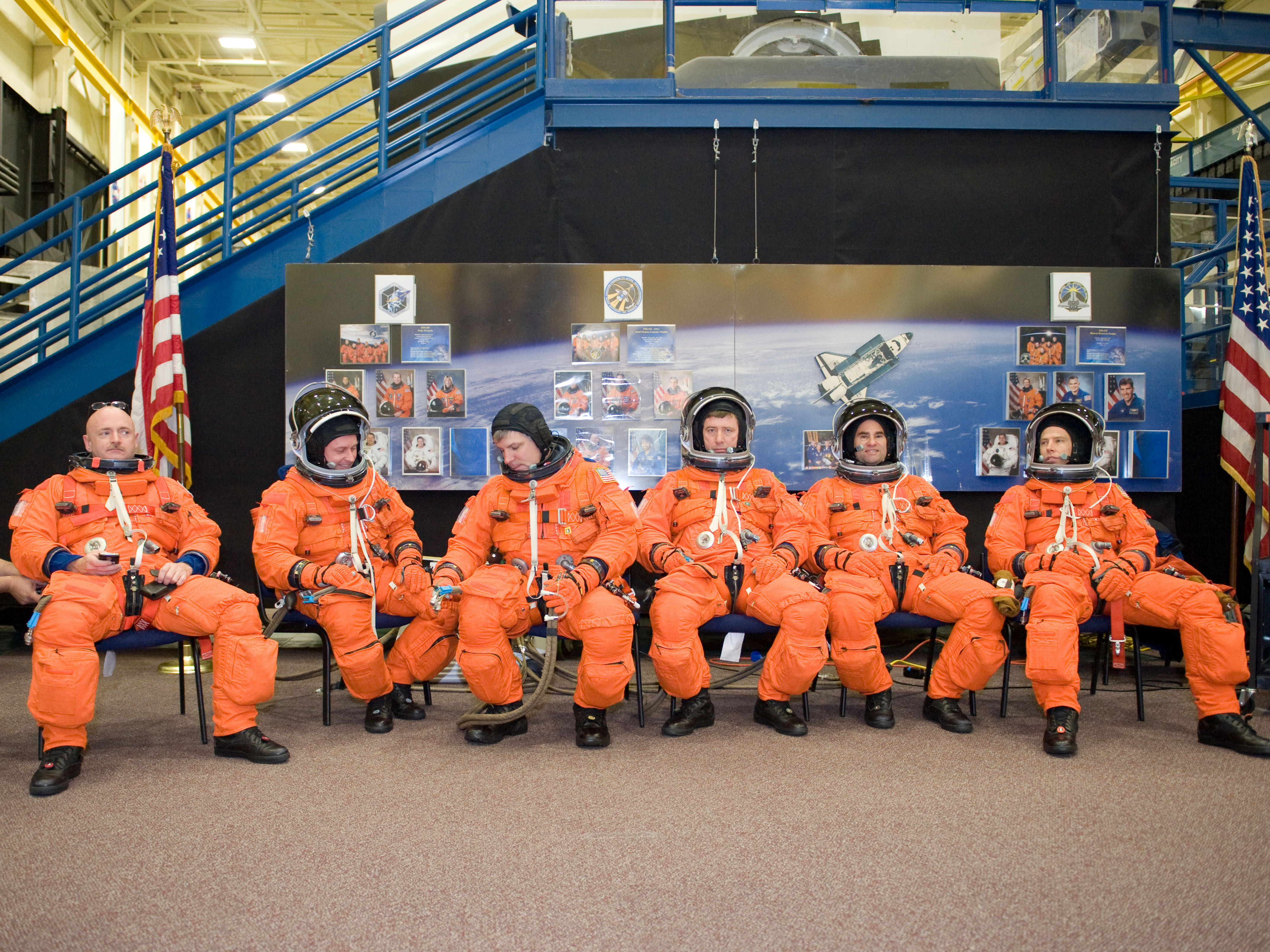 The STS-134 crew members, attired in training versions of their shuttle launch and entry suits, await the start of a training session in the crew compartment trainer (CCT-2) in the Space Vehicle Mockup Facility at NASA's Johnson Space Center. Pictured from the left are NASA astronauts Mark Kelly, commander; Michael Fincke, mission specialist; Gregory H. Johnson, pilot; European Space Agency astronaut Roberto Vittori, NASA astronauts Greg Chamitoff and Andrew Feustel, all mission specialists.